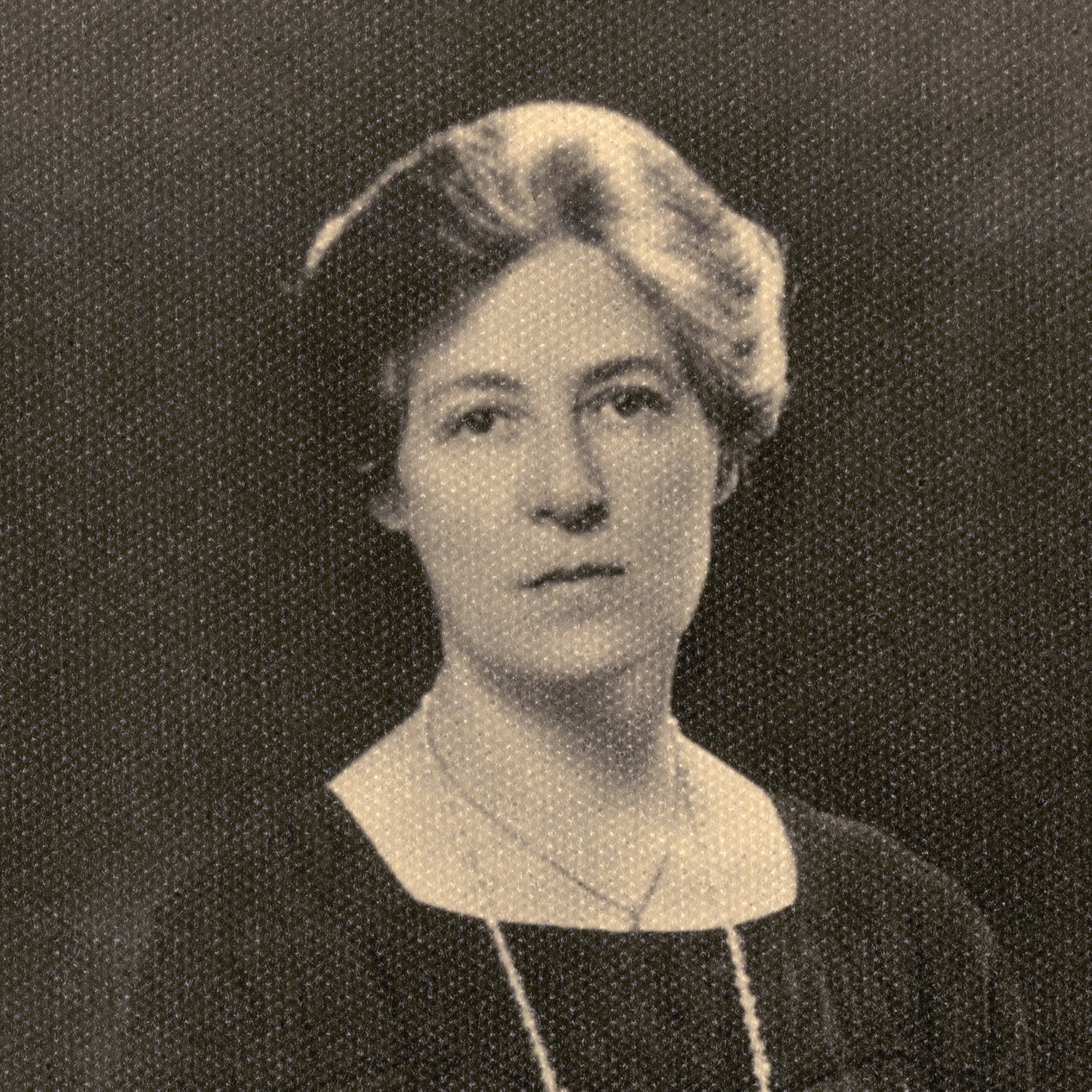 7JCC/O/02/143 Photograph, printed, paper, monochrome studio portrait of Clara Codd standing behind a table, a book in her left hand, three quarter length, front profile; manuscript inscription below image 'West best love, Clara M Codd'